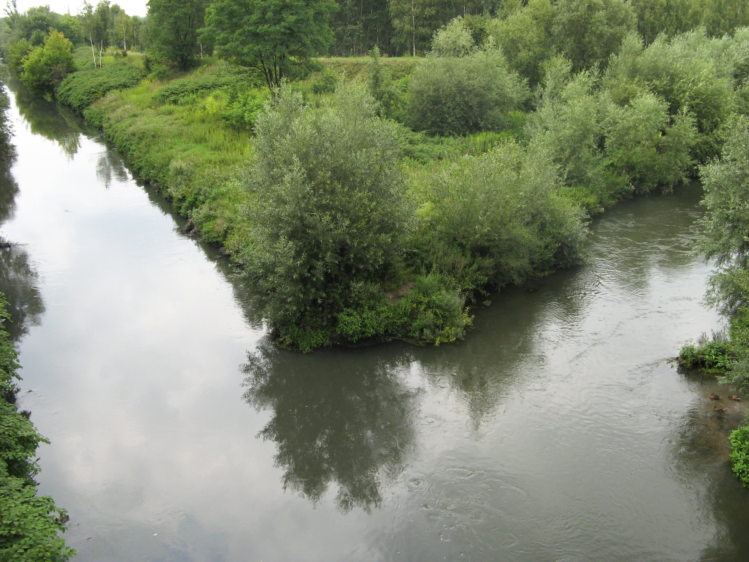 Triangle of three emperors. Confluence of Black Przemsza river (left) and White Przemsza river (right) into the Przemsza river. Befor the WWI there were borders of three empires - German (left), Austrian (right) and Russian (between both the rivers). This place is in Mysłowice town